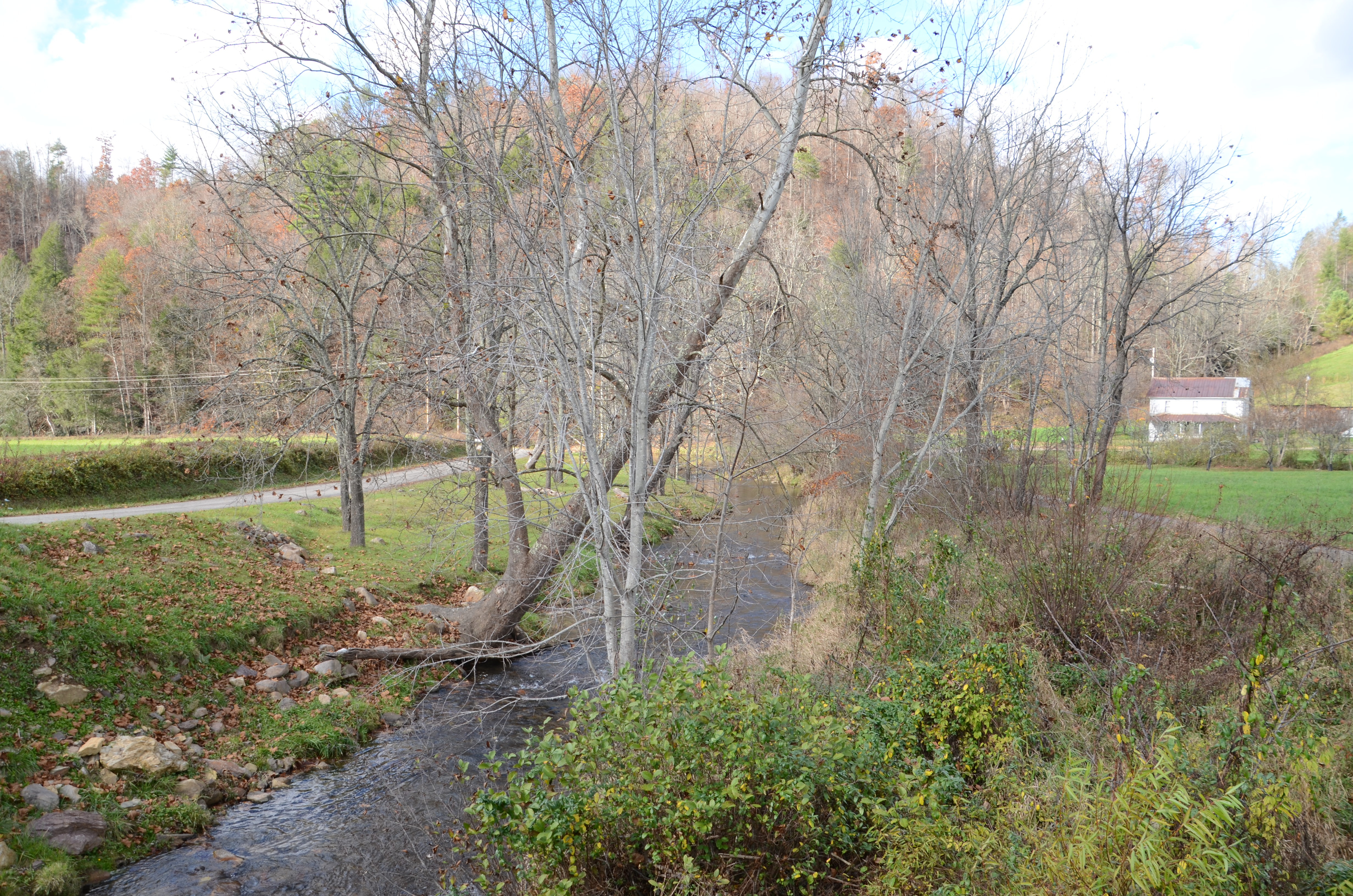 Doe Creek in the small hamlet of Pandora, Johnson County, Tennessee